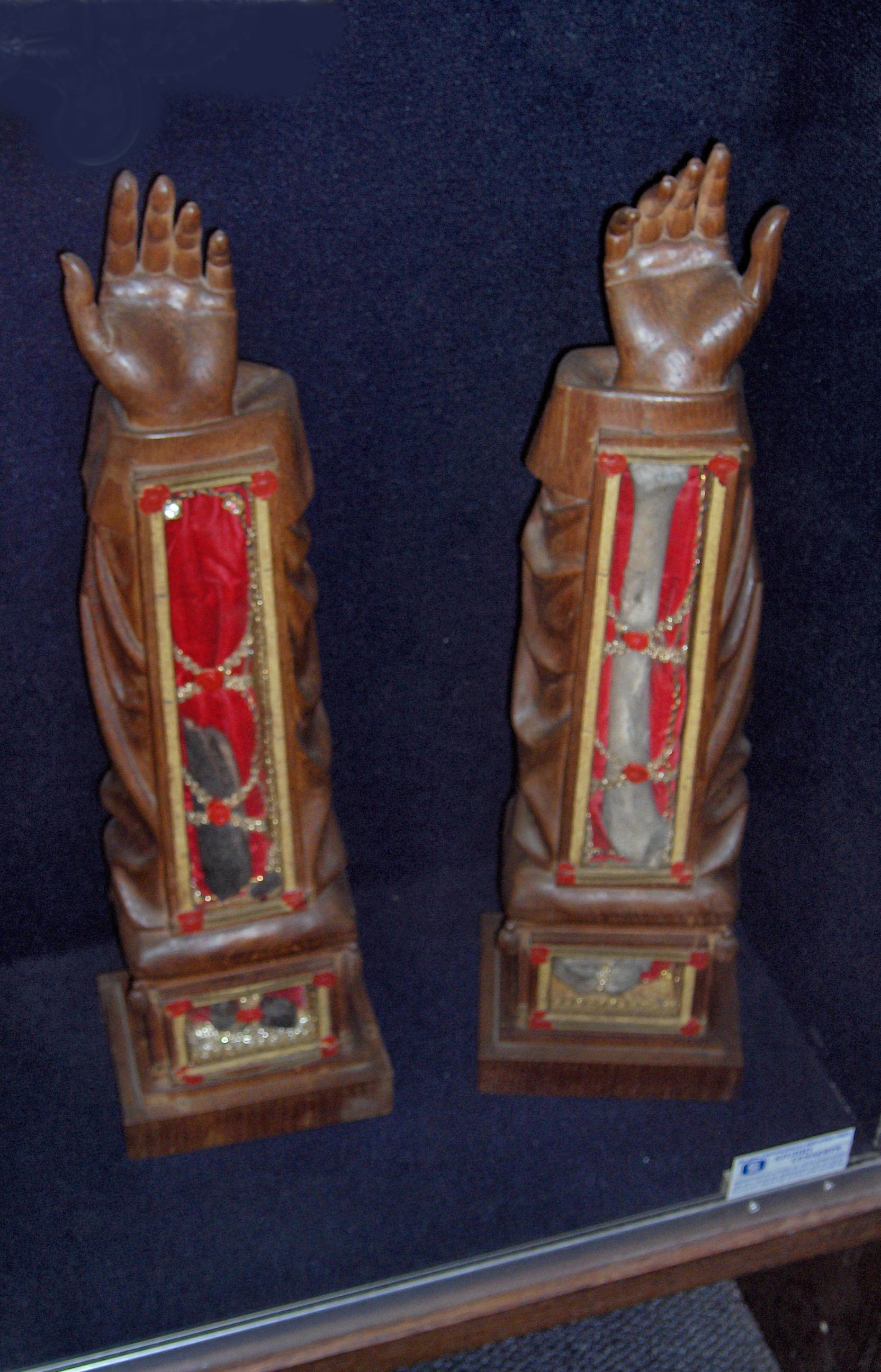 Relics of St. Harlindis and St. Relindis (wood adorned with silver; 1652); treasure of the St. Catharinakerk in Maaseik, Belgium